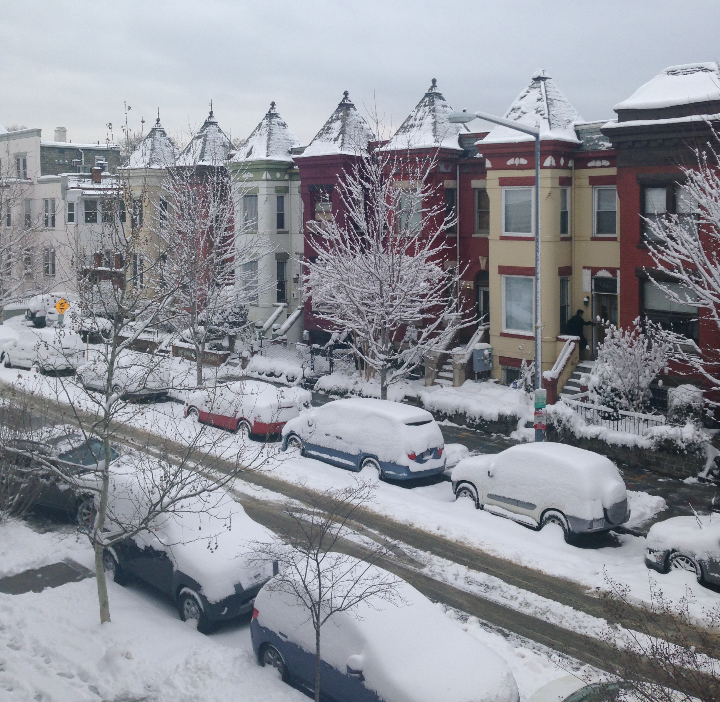 The Bloomingdale neighborhood's distinctive Victorian-style rowhouses, in the snow.